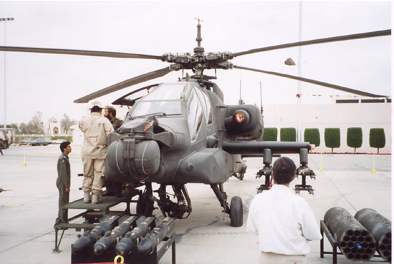 Royal Saudi Land Forces Aviation Command AH-64A Apache